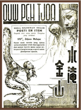 This is the one sheet for the 1934 film Ouw Peh Tjoa.